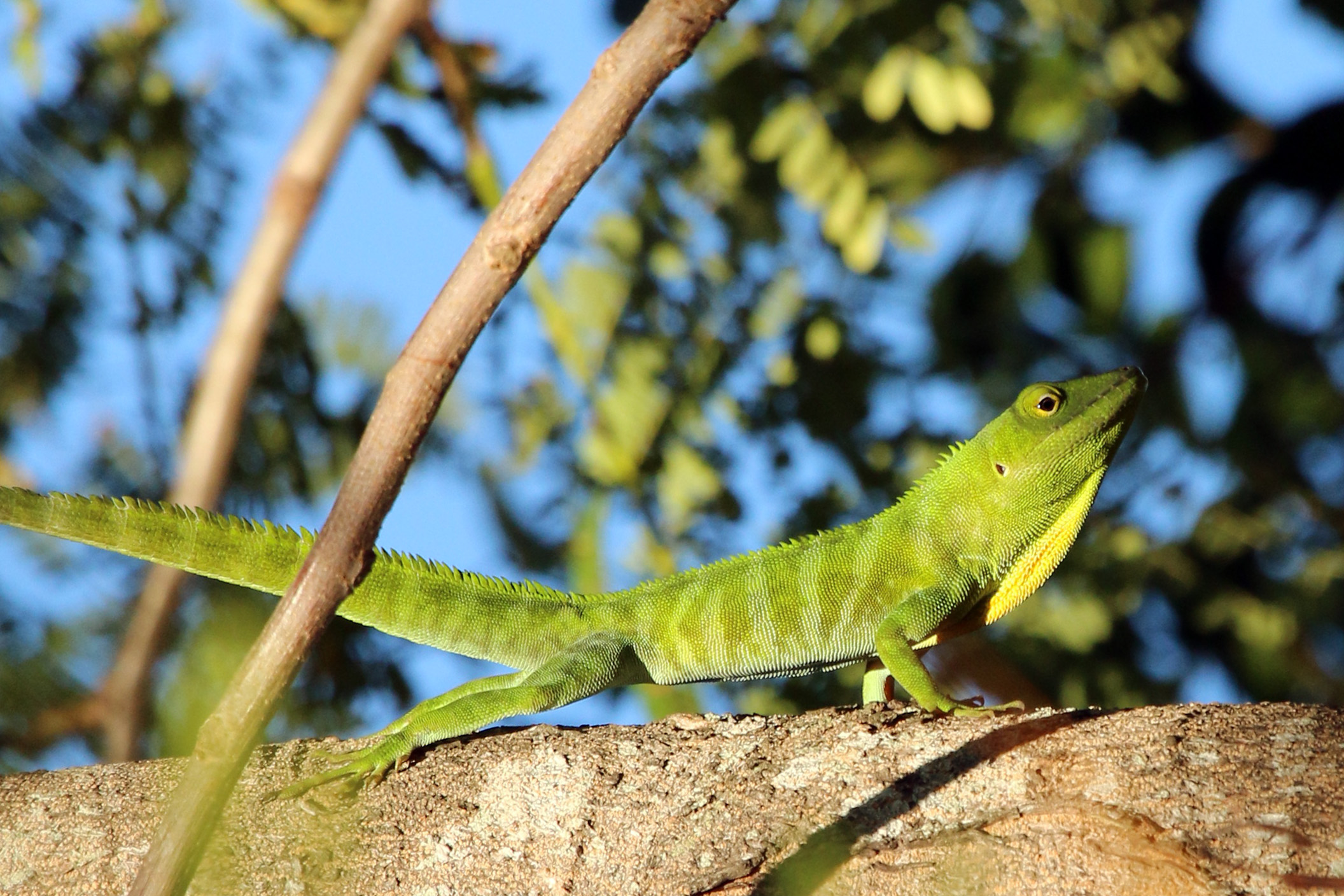 Jamaican giant anole (Anolis garmani), male, Jamaica